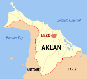 Map of Aklan showing the location of Lezo